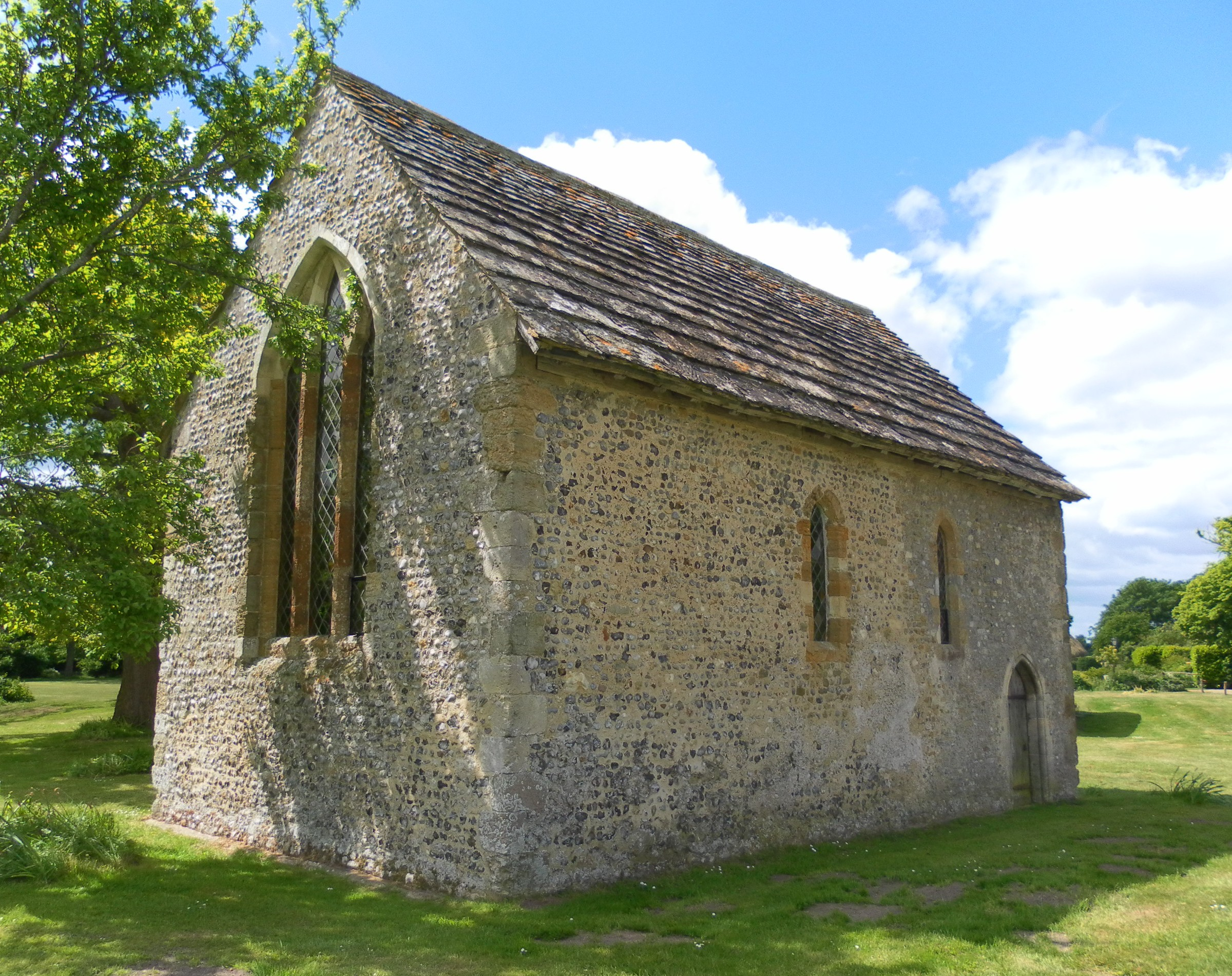 Bailiffscourt Chapel, Bailiffscourt Hotel, Atherington, Arun District, West Sussex, England. A former private chapel (occasionally used for public worship) in the grounds of the former Bailiffscourt Manor. Listed at Grade II* by English Heritage (NHLE Code 1233450)